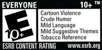 Example of content description used by the ESRB in a game, in this case Rabbids Go Home